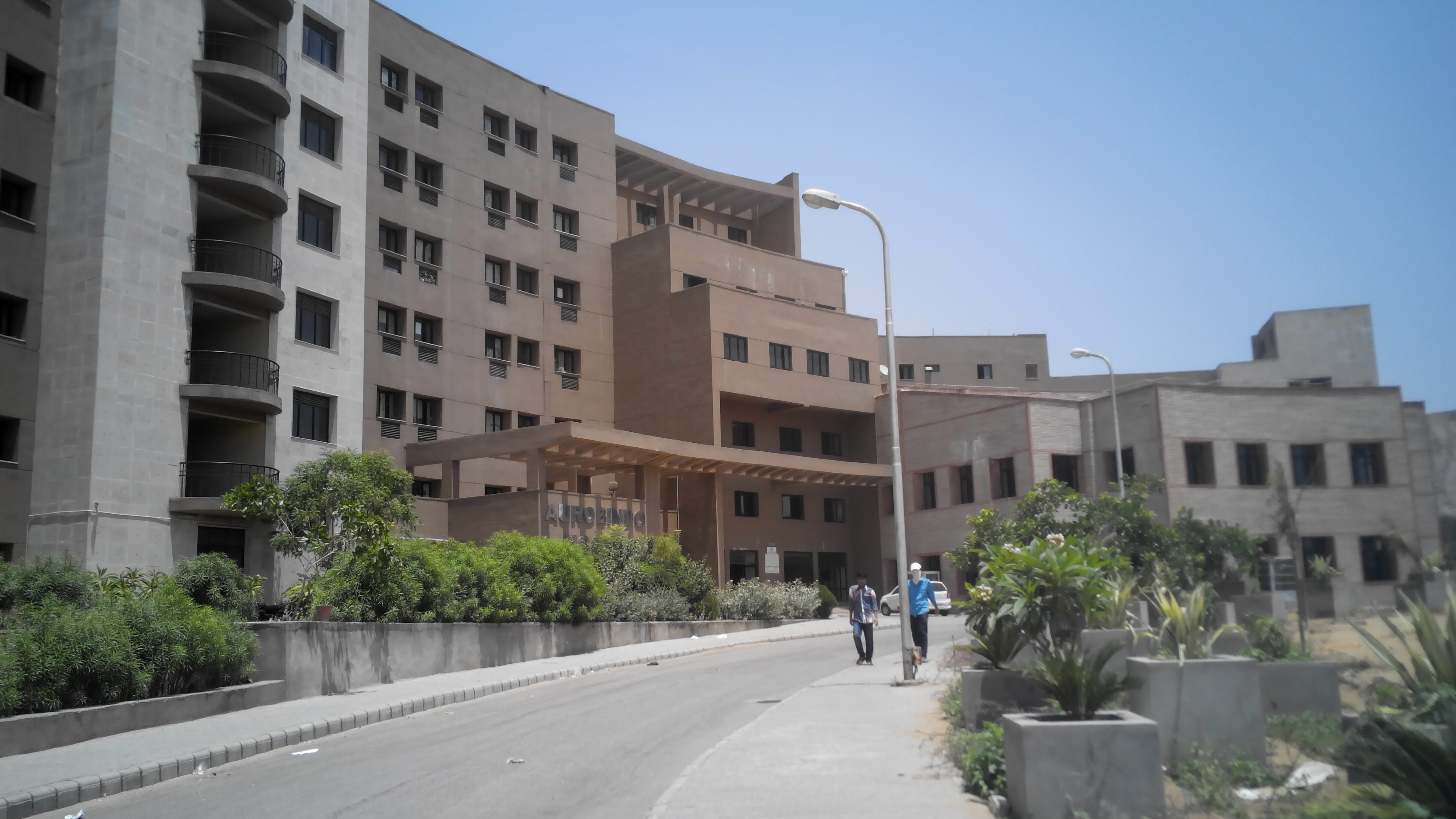 Malaviya National Institute of Technology Campus